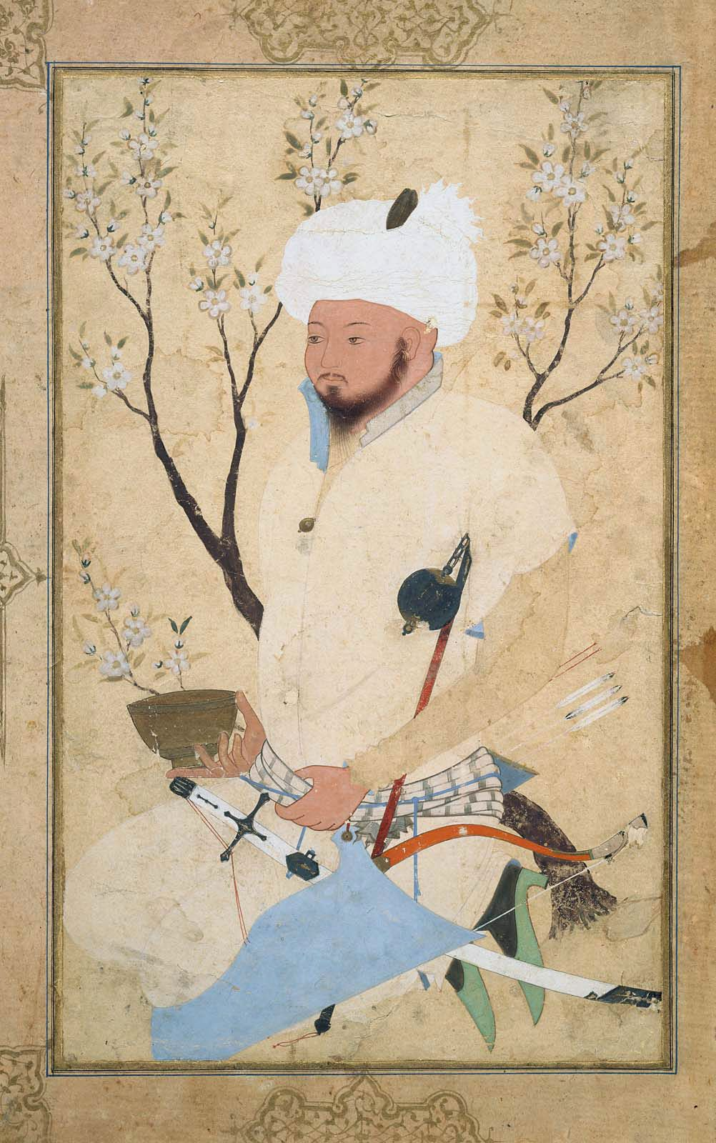 Emir resting under the tree. Boston